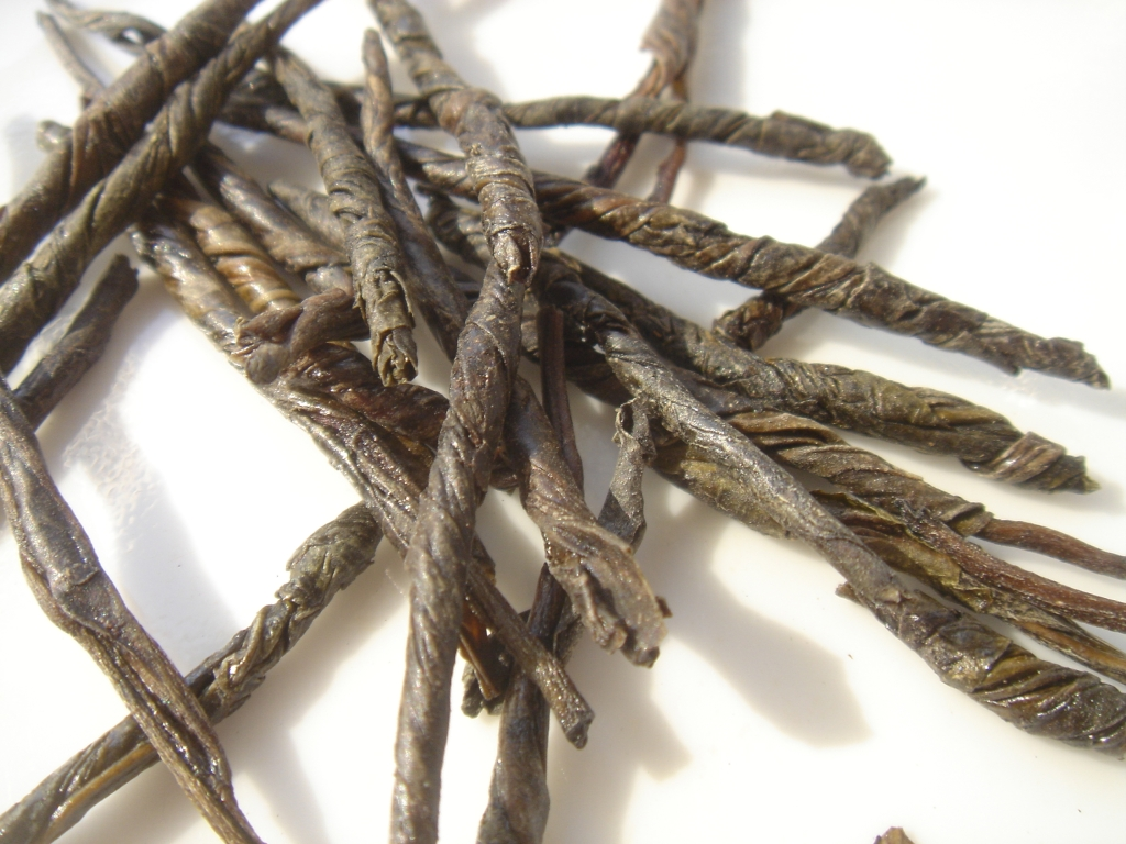 Kudingcha dried rolled leaves